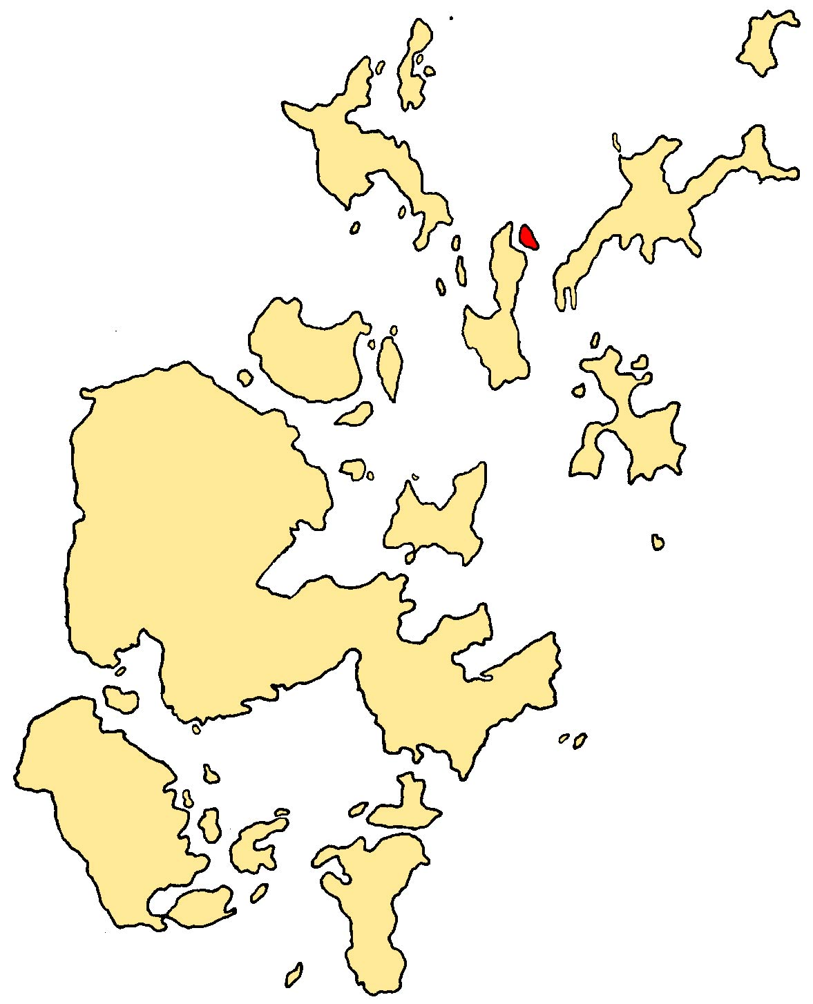 Calf of Eday, Orkney Islands